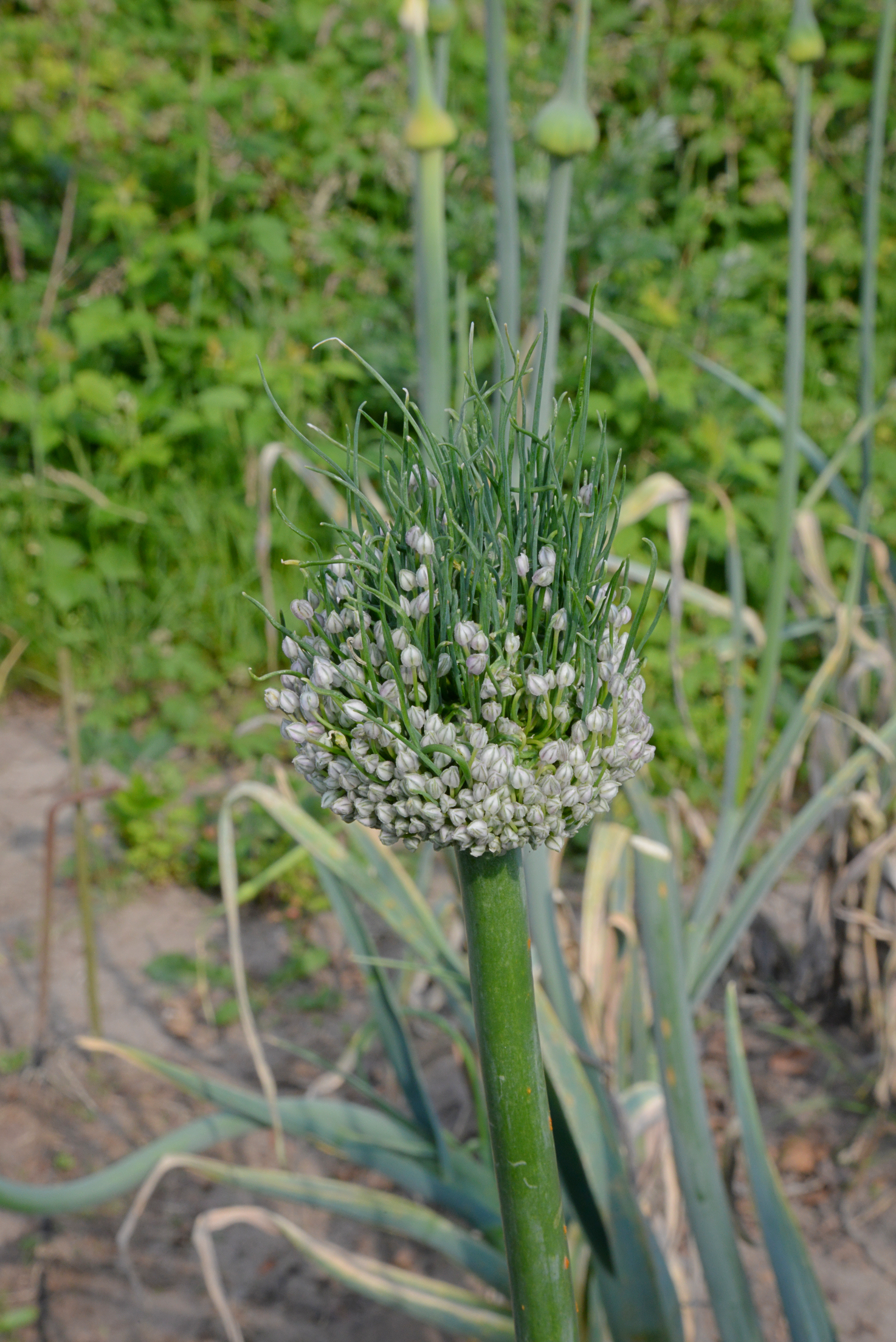 Allium ampeloprasum var. porrum with false vivipary